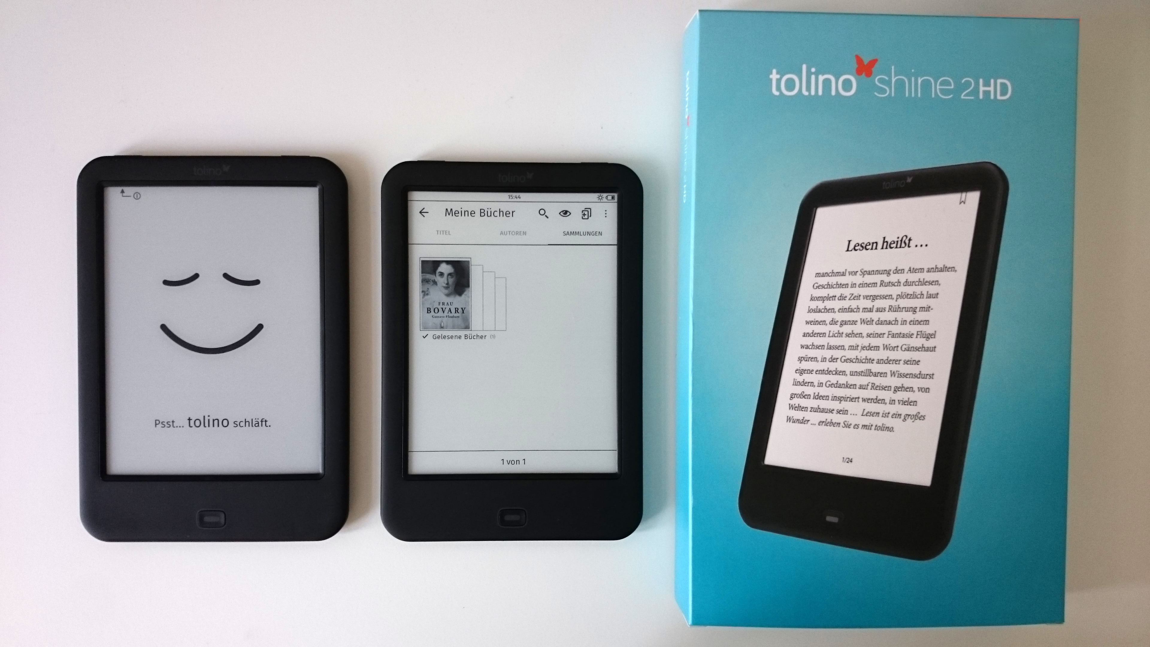 from the front above